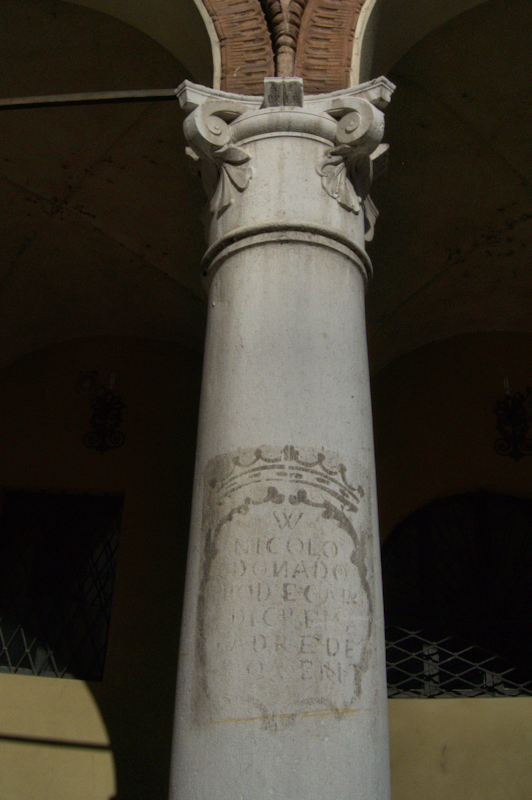 Column of the Bishop's palace of Crema (Italy) with an inscription from 1575